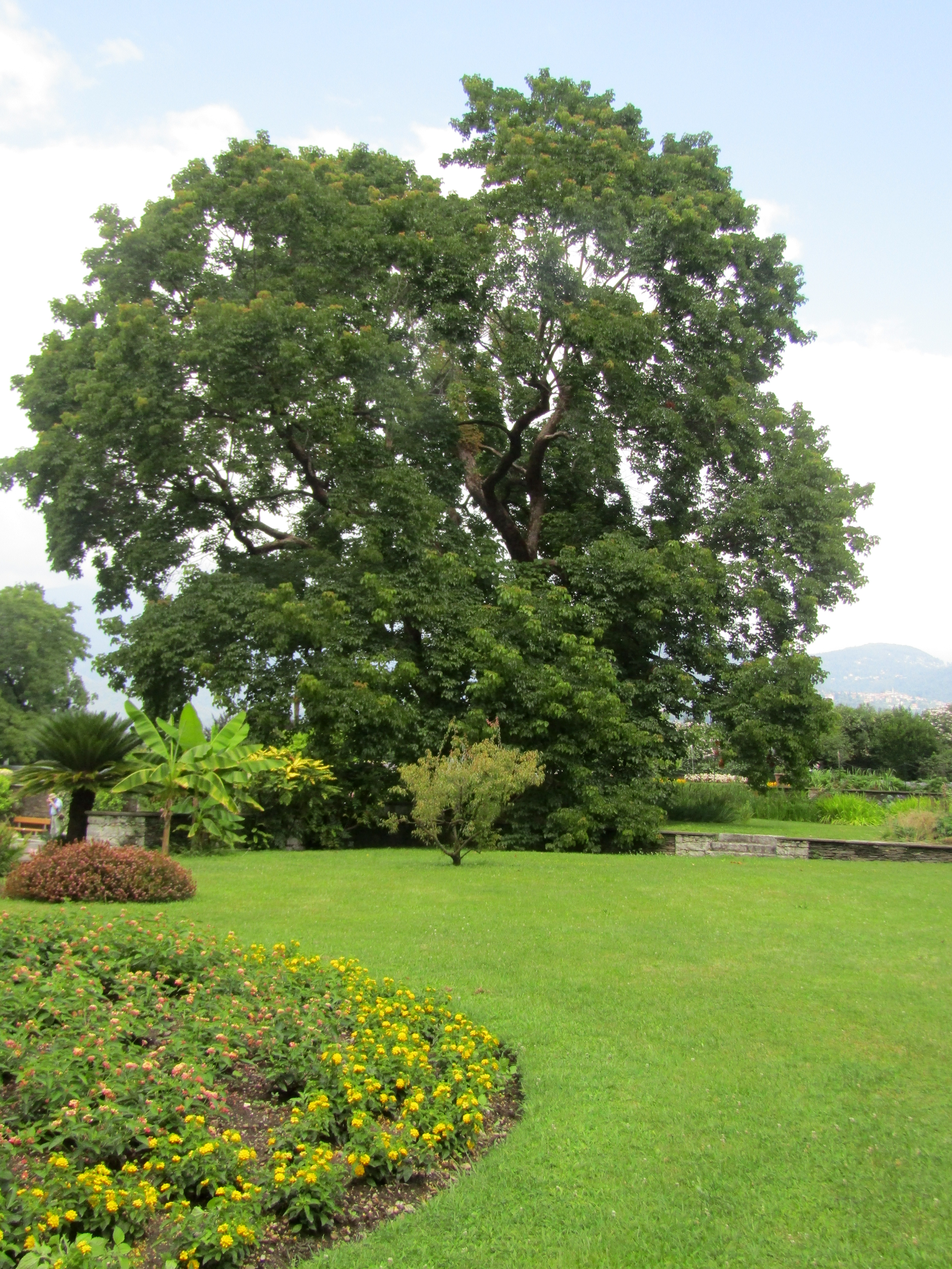 A tree of Bischofia javanica (Villa Taranto botanical garden, VB, Italy)